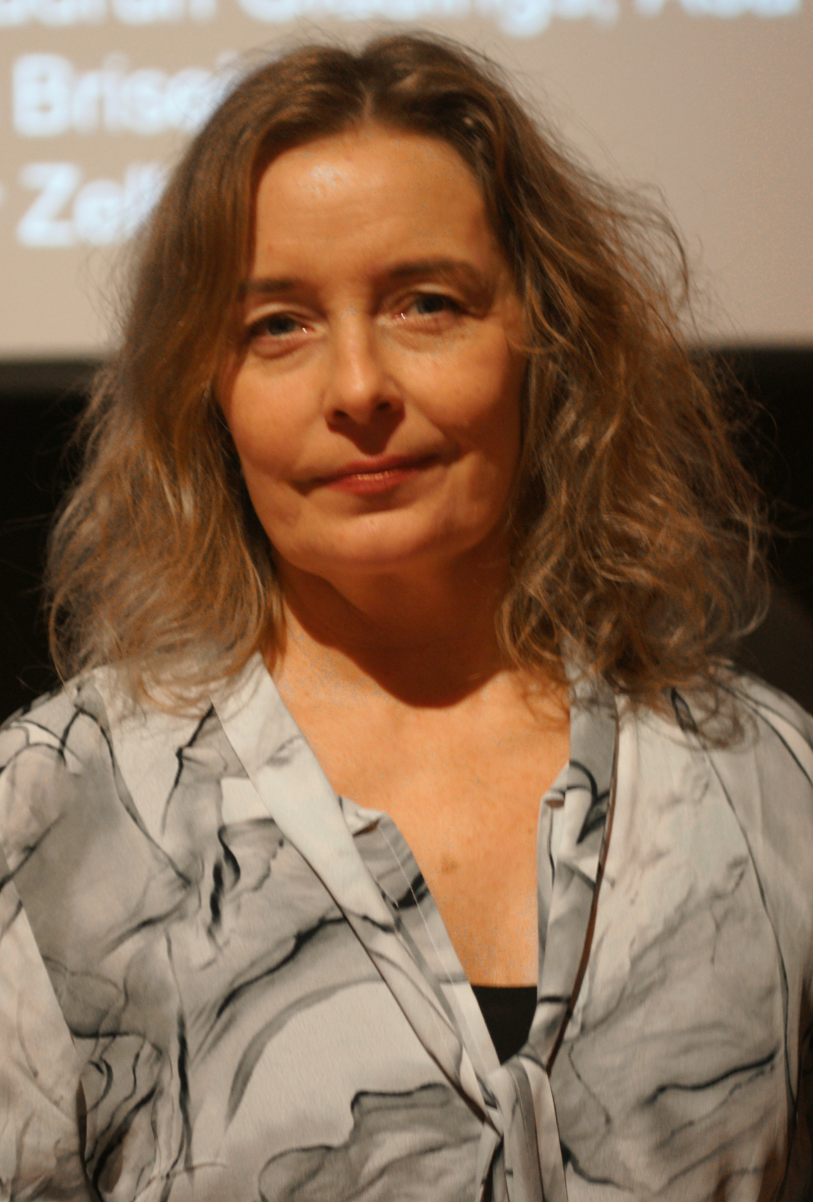 Swedish writer Åsa Lantz, photographed at Göteborg Film Festival 2017.